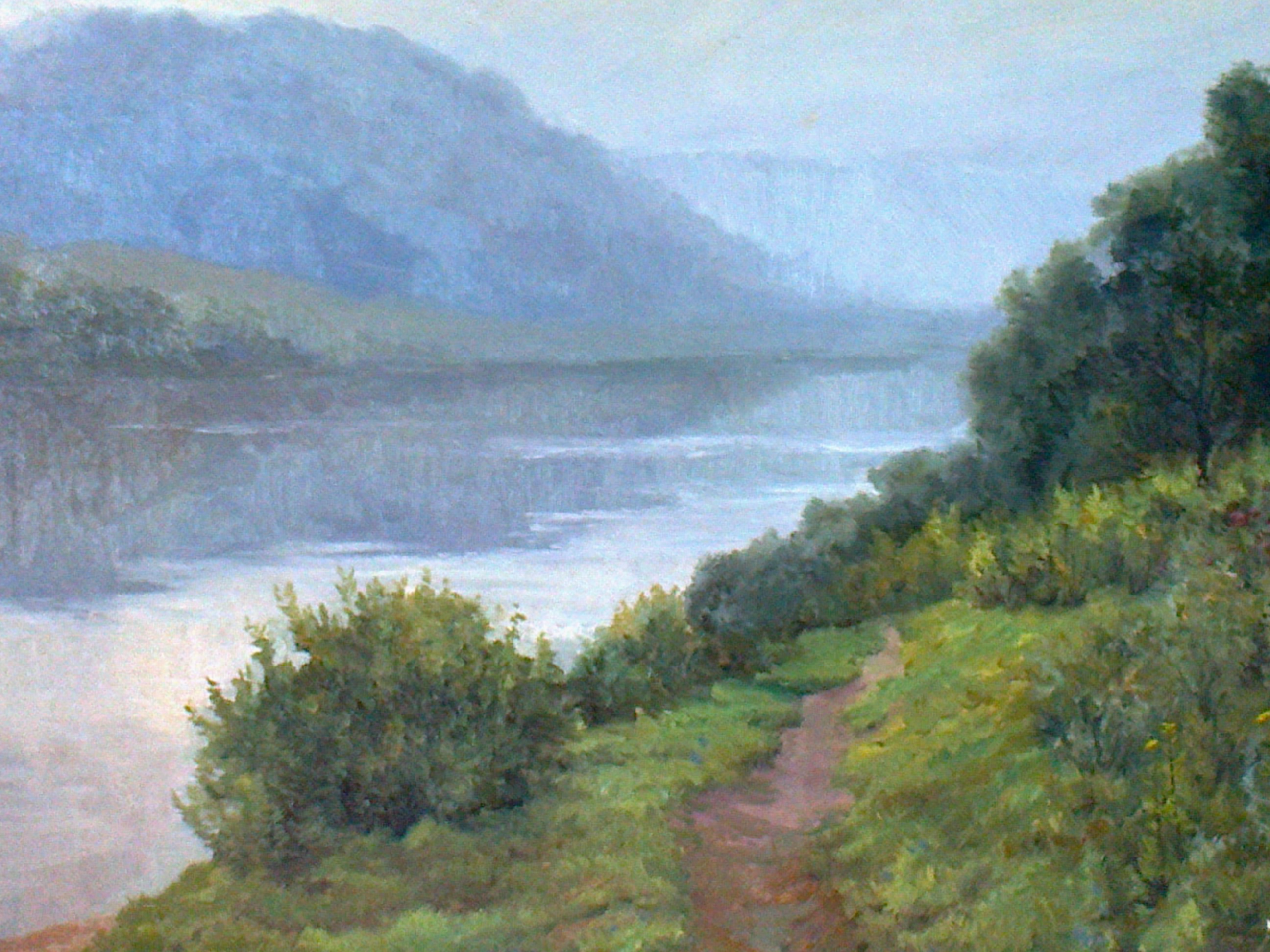 Famous Russian painter 1908-1981